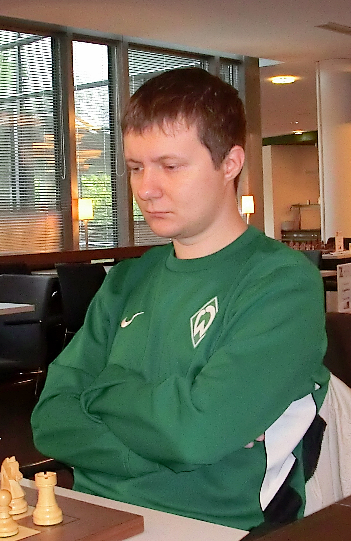 Alexander Areshchenko, chess grandmaster from Ukraine